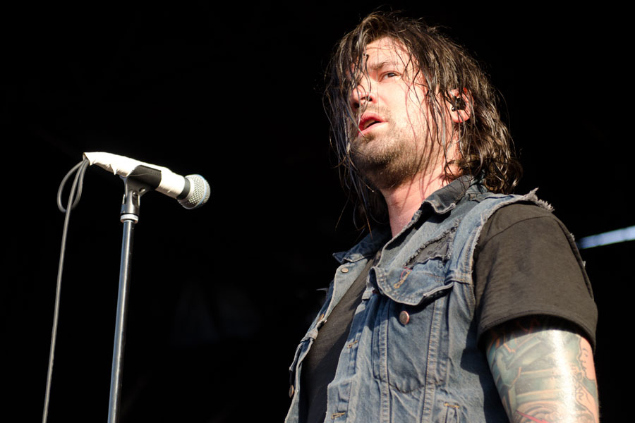 Taking Back Sunday @ Vans Warped Tour in Atlanta, GA on July 26, 2012. This photo is licensed under a Creative Commons license. If you use this photo within the terms of the license or make special arrangements to use the photo, please list the photo credit as "Mark Runyon / " and link the text to